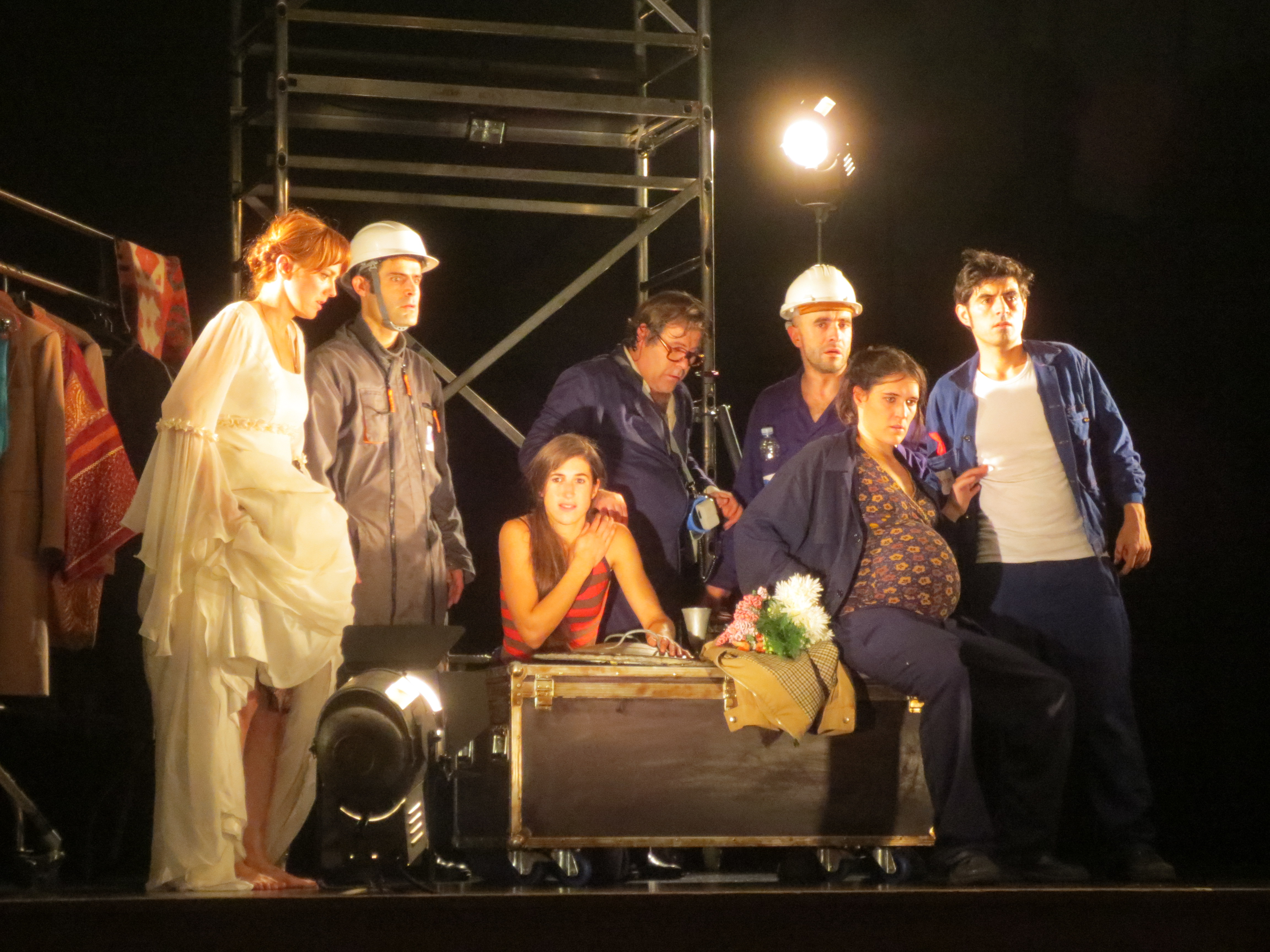 A moment in the Basque play Hamlet, a loose version of the classic Hamlet (2013)